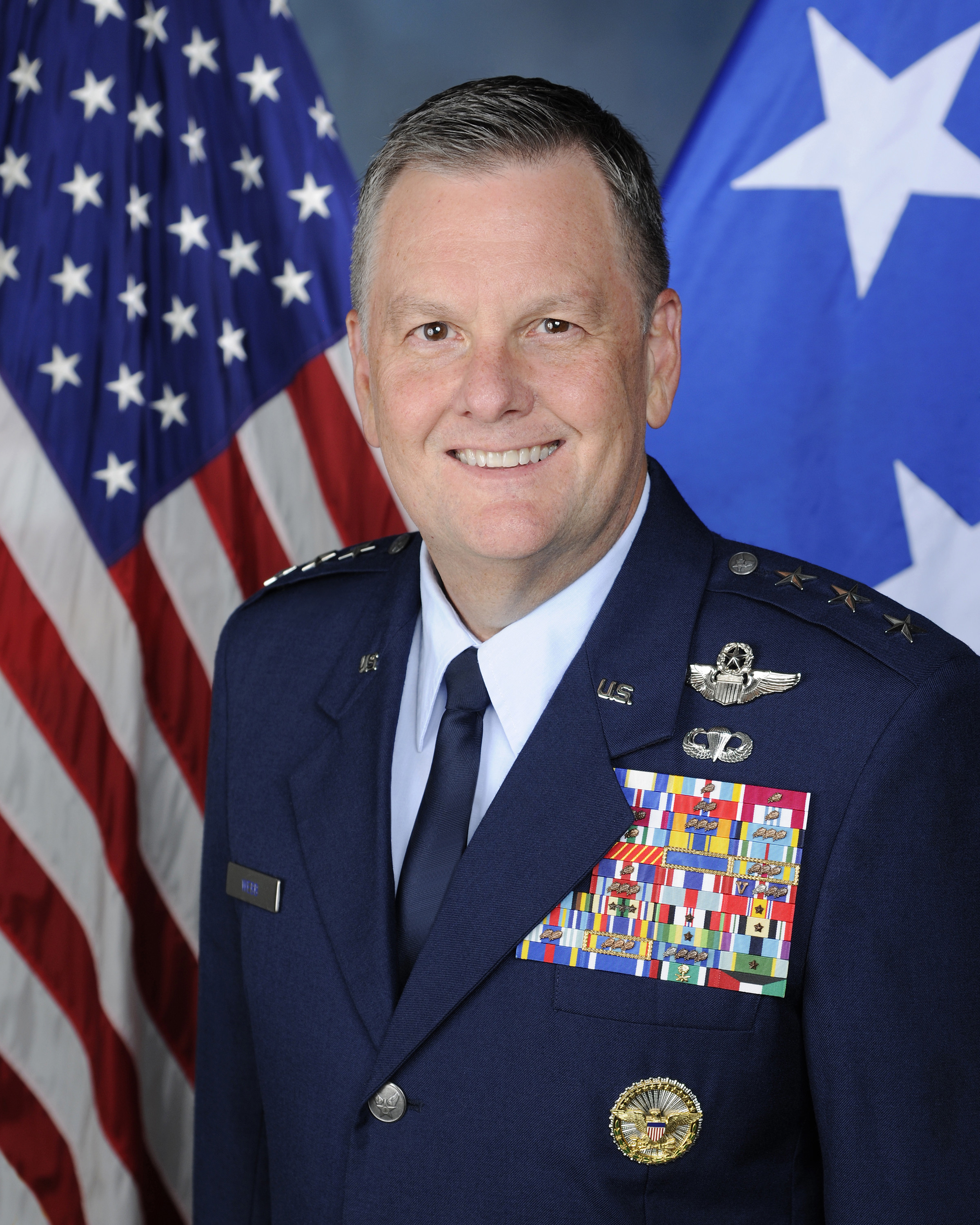 Lt. Gen. Marshall B. Webb, Commander, Air Education and Training Command, Joint Base San Antonio-Randolph, Texas